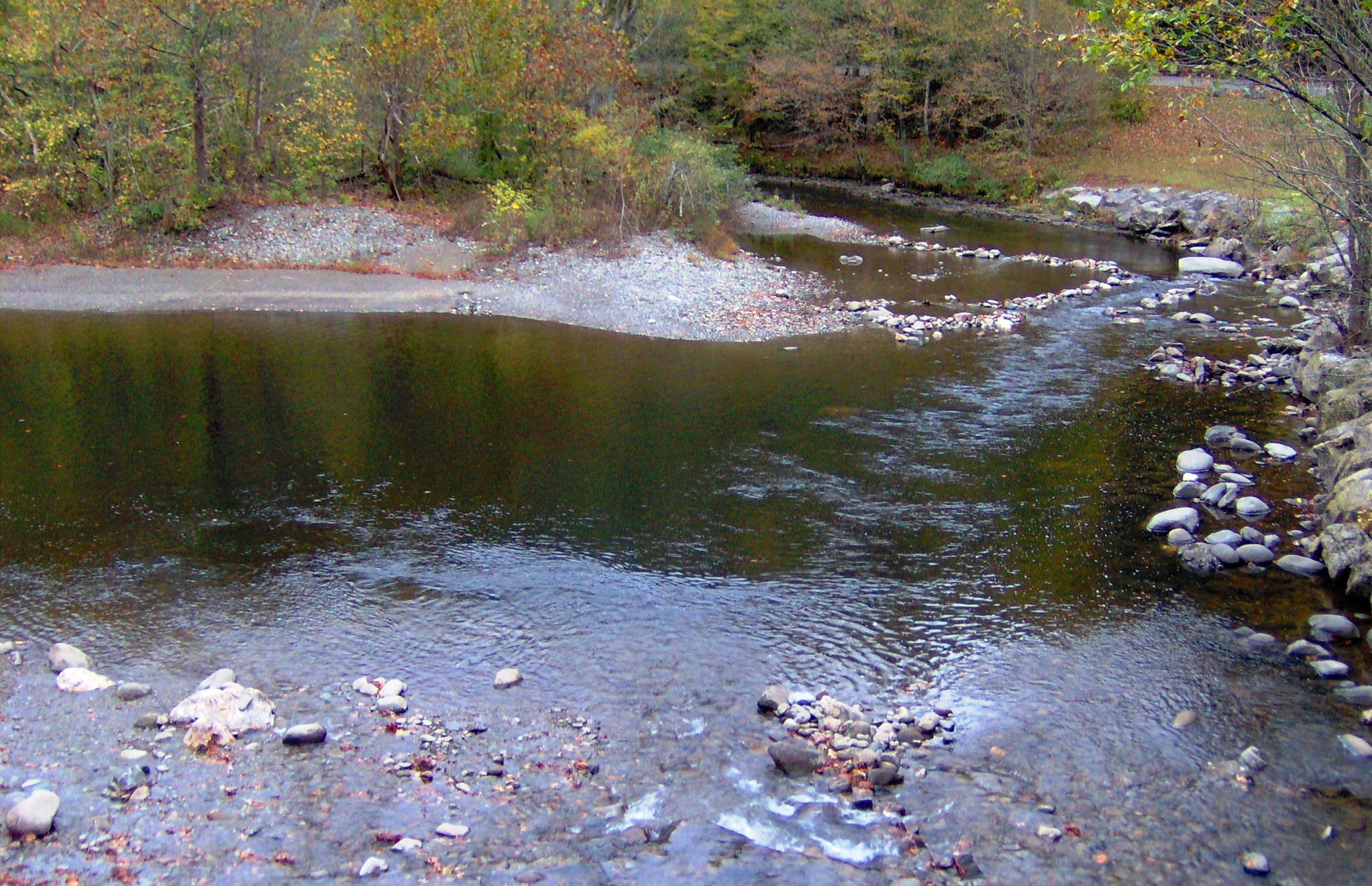 The Townsend Y, created by the Little River (top right) as it absorbs Middle Prong of Little River (bottoms) and turns north (middle left). This confluence is a popular swimming and tubing area in warmer months, and is located appx. 2 miles south of Townsend along TN-73.